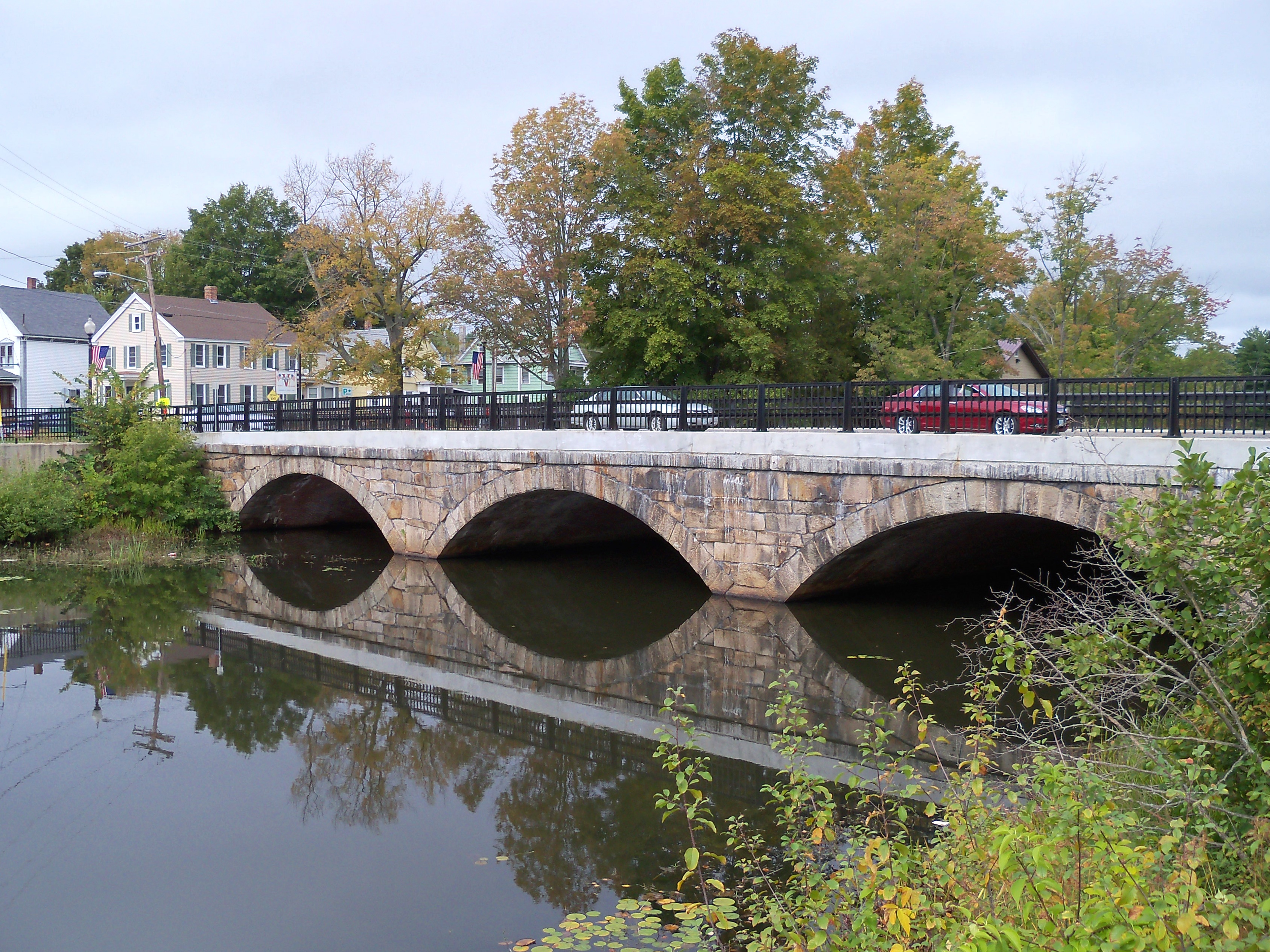 Arched stone bridge over the Cocheco River in Rochester, New Hampshire, USA.